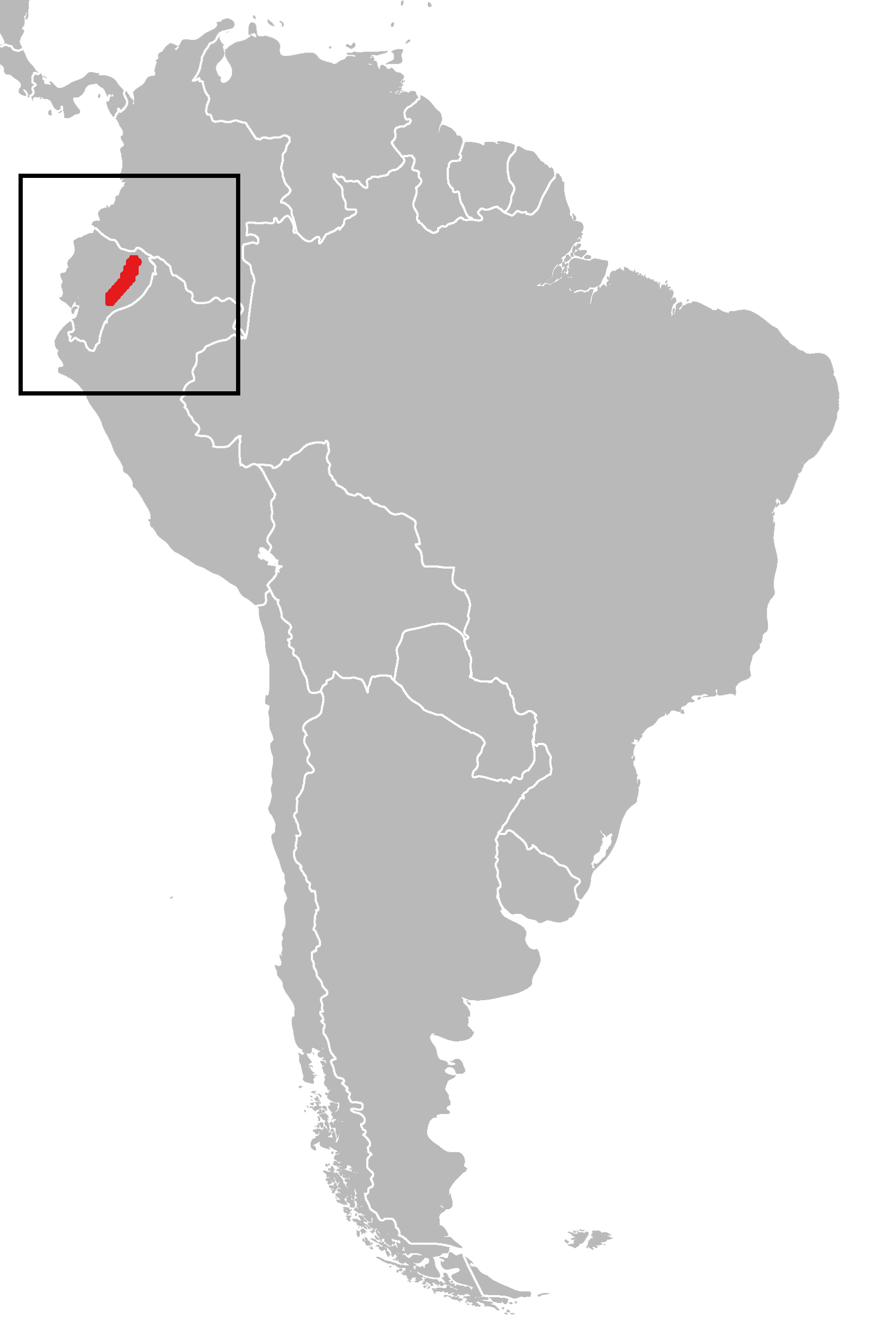 Distribution map of Sphiggurus ichillus